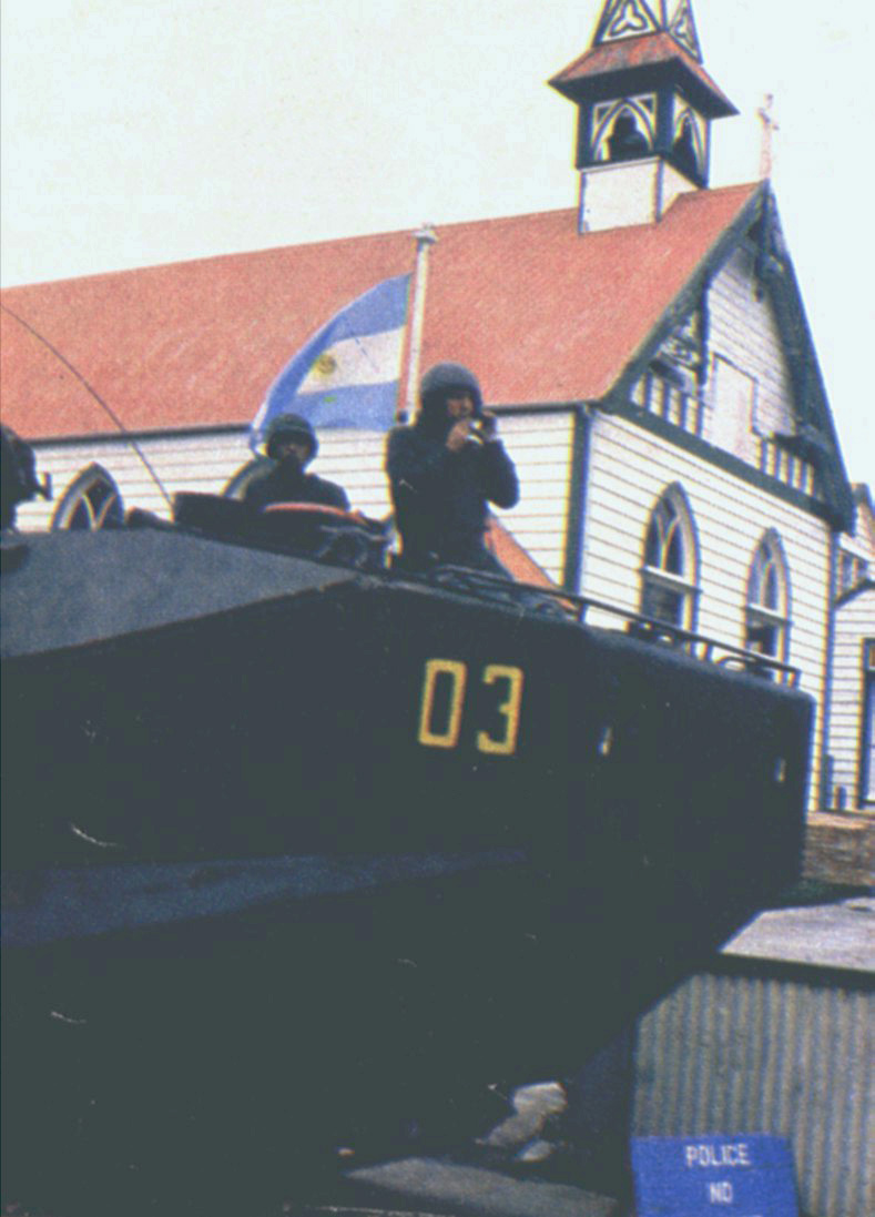 An amphibious vehicle patroling Port Stanley, 1982